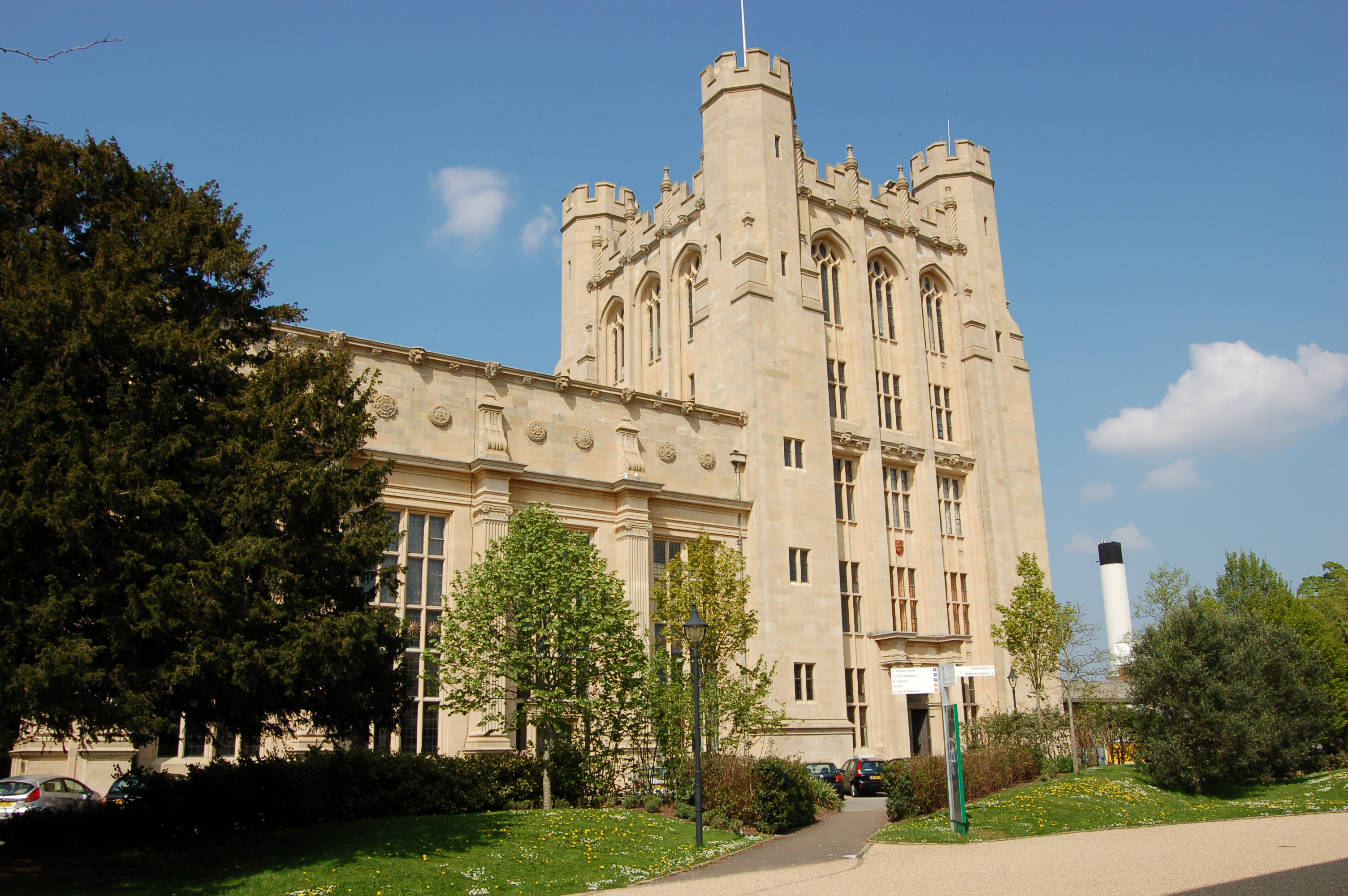 Photograph of the tower of the H. H. Wills Physics Laboratory at the University of Bristol.